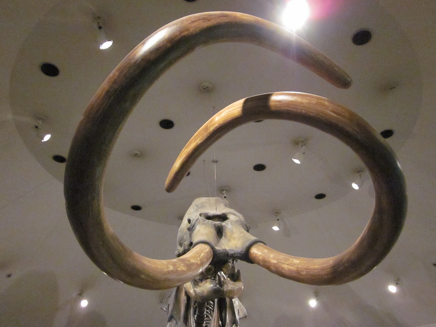 Columbian mammoth in the George C. Page Museum at the La Brea Tar Pits, Los Angeles, California, U.S.